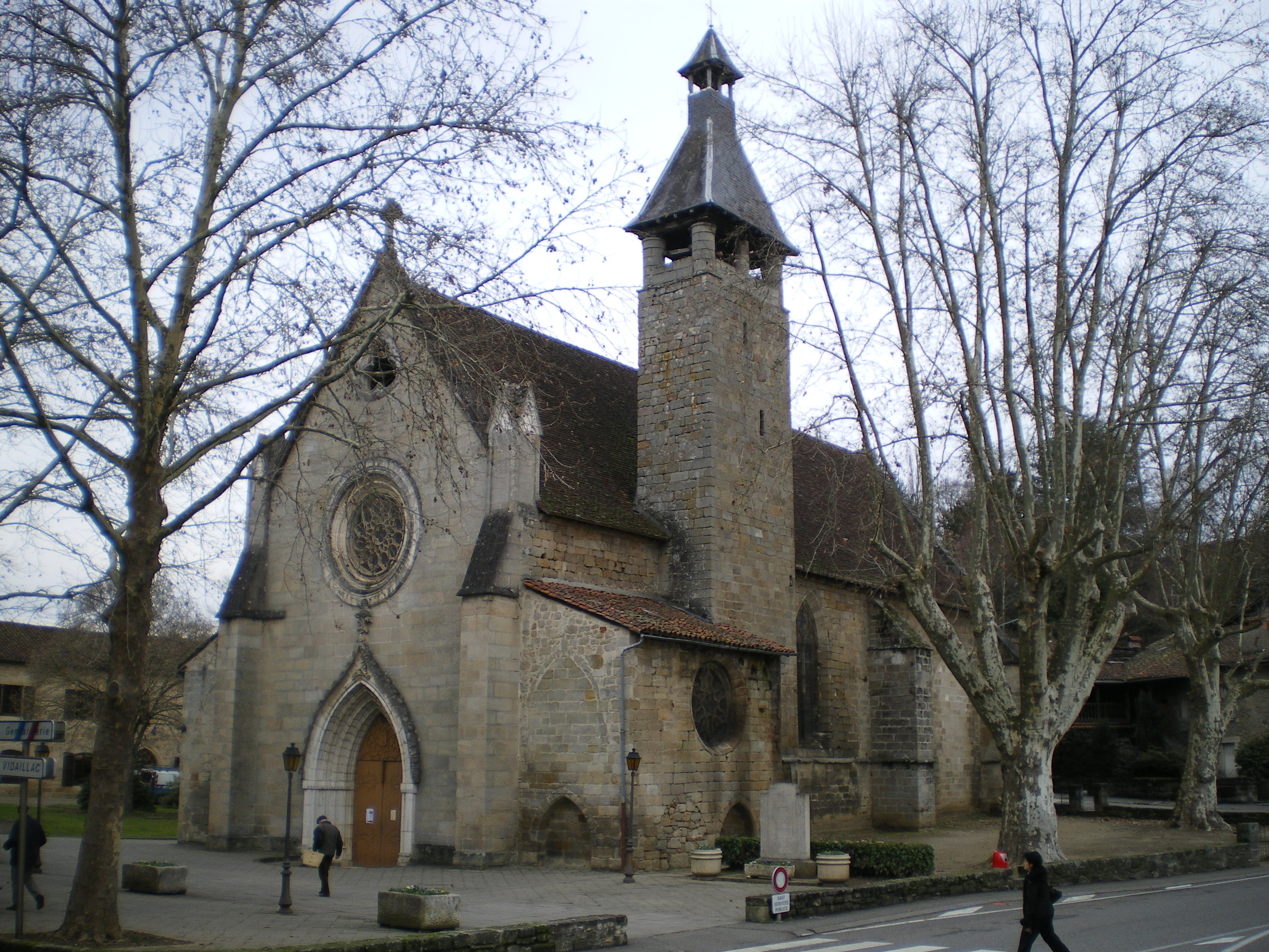 Saint-Thomas' Church, Figeac, France